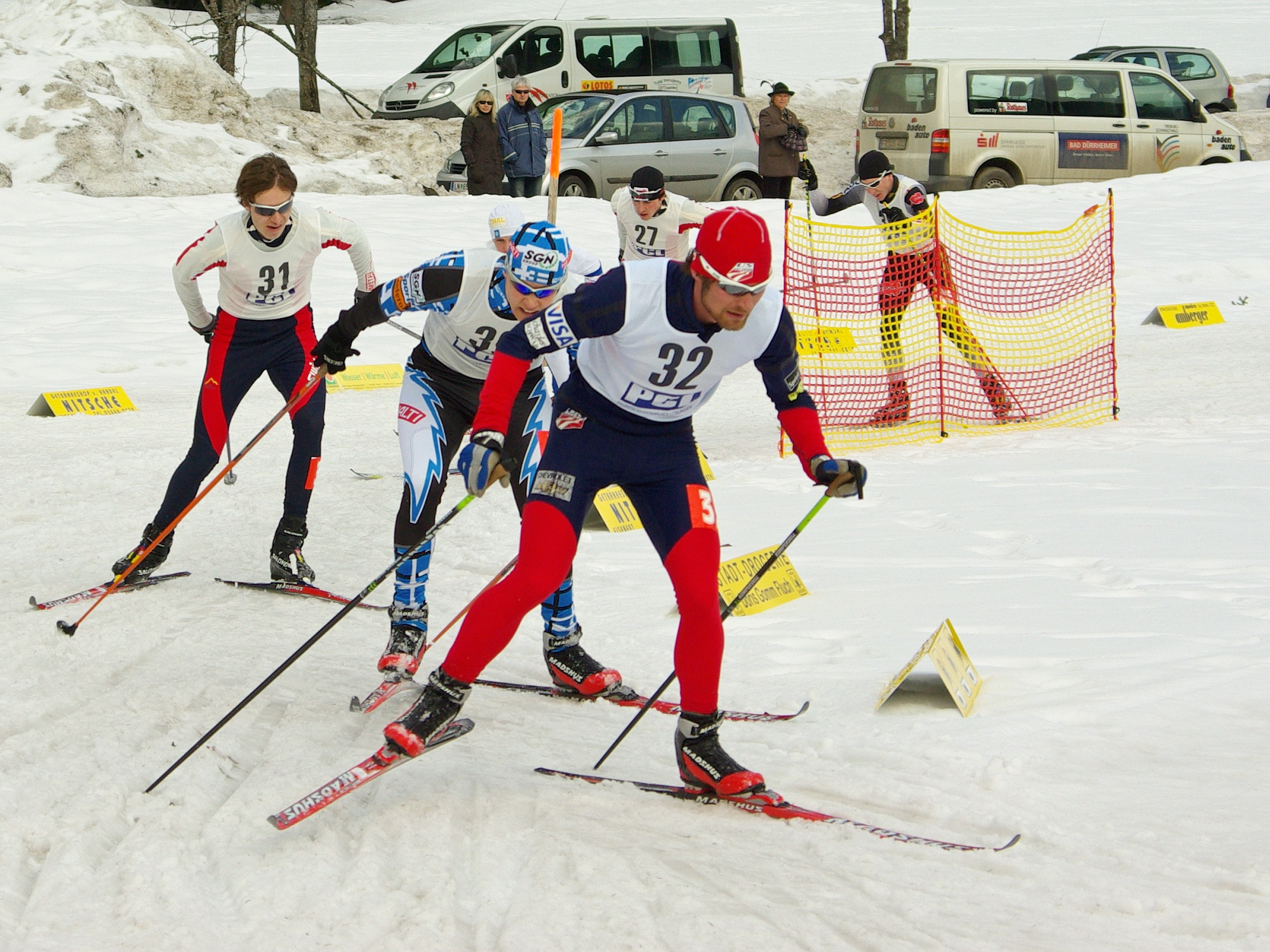 American nordic combined skier Bryan Fletcher during the World Cup B sprint event in Eisenerz (Austria) on 9 March 2008.